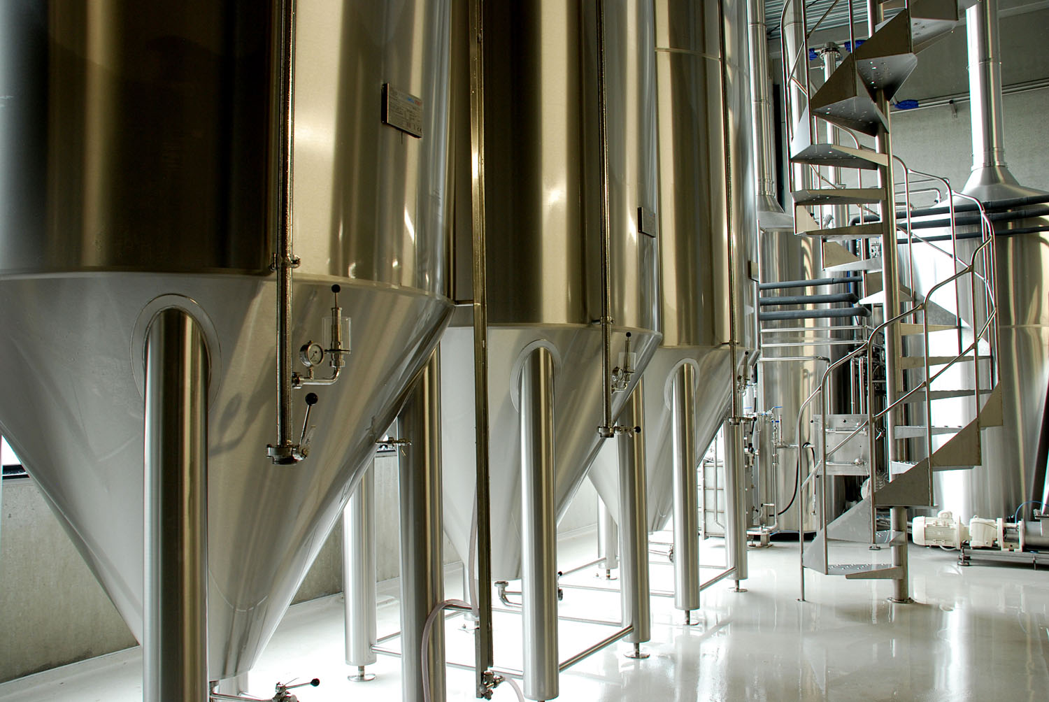 Brewery Dilewyns, Belgium